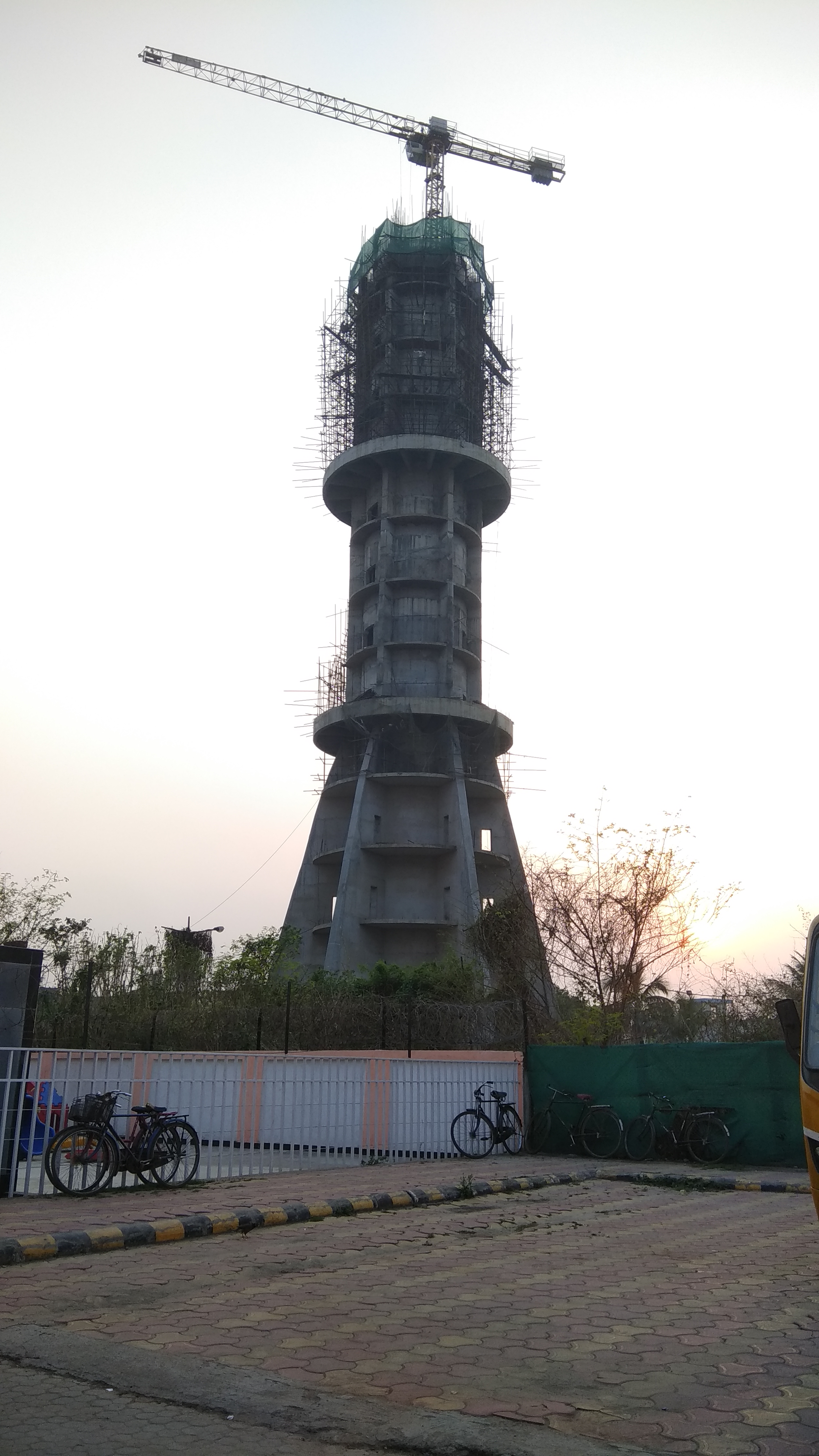 Panch deep tower, a 400 ft tall viewing tower, deemed to be the tallest tower in India, under construction in Belilious park, Howrah India